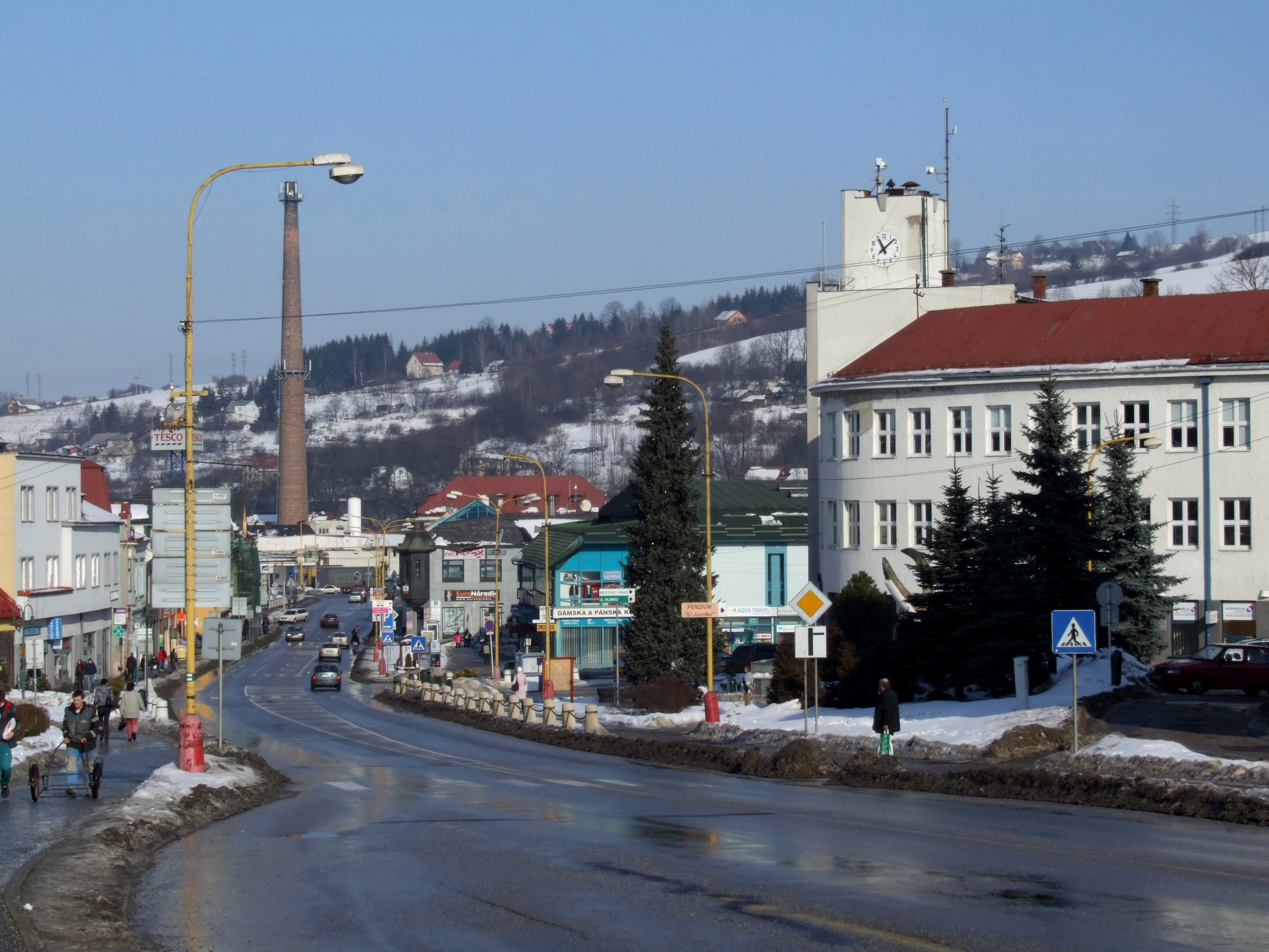 Čadca (Tschadsa, Csaca), Slovakia - city center